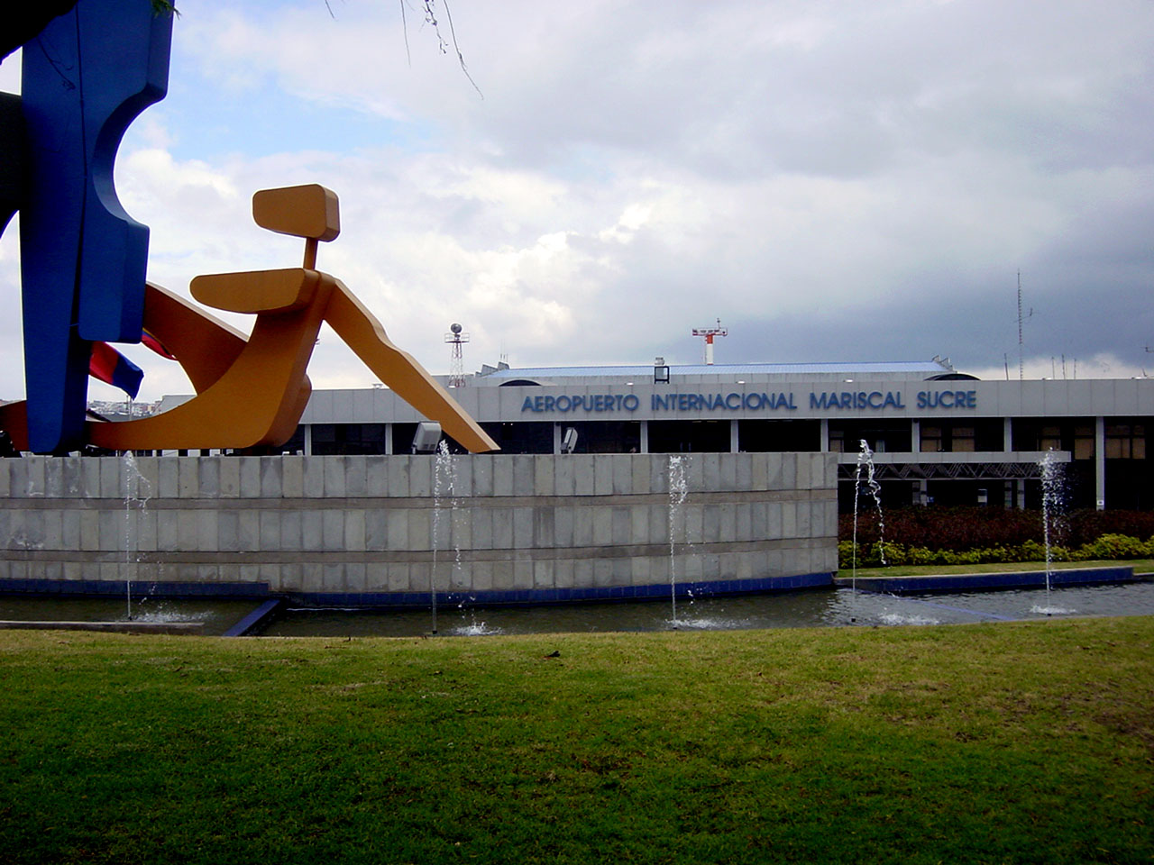 Outside Quito's international airport, Ecuador.